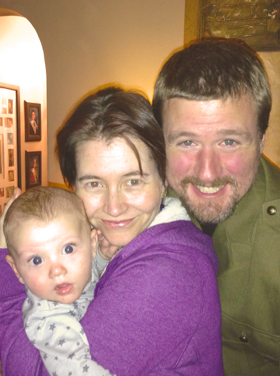 Dave Farrow with Andrea Zakel and their son, Alexander at their home in Buffalo, NY.